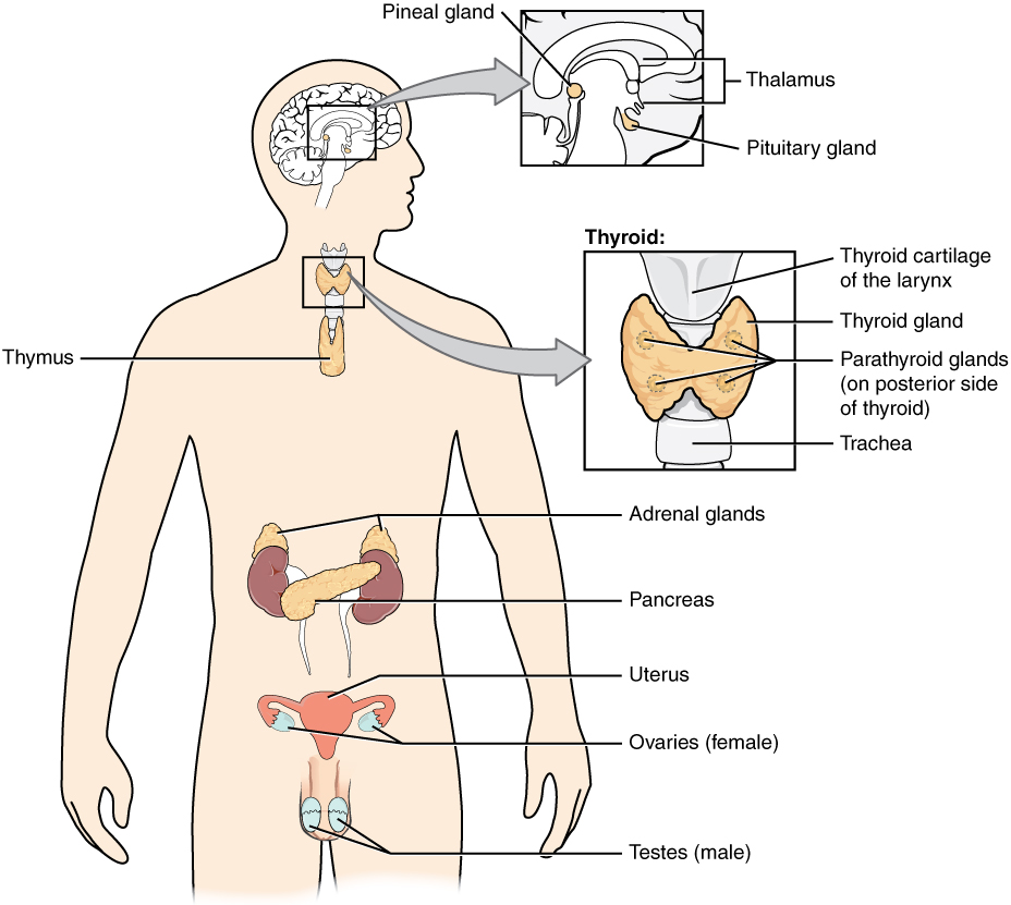 Illustration from Anatomy & Physiology, Connexions Web site. Jun 19, 2013.